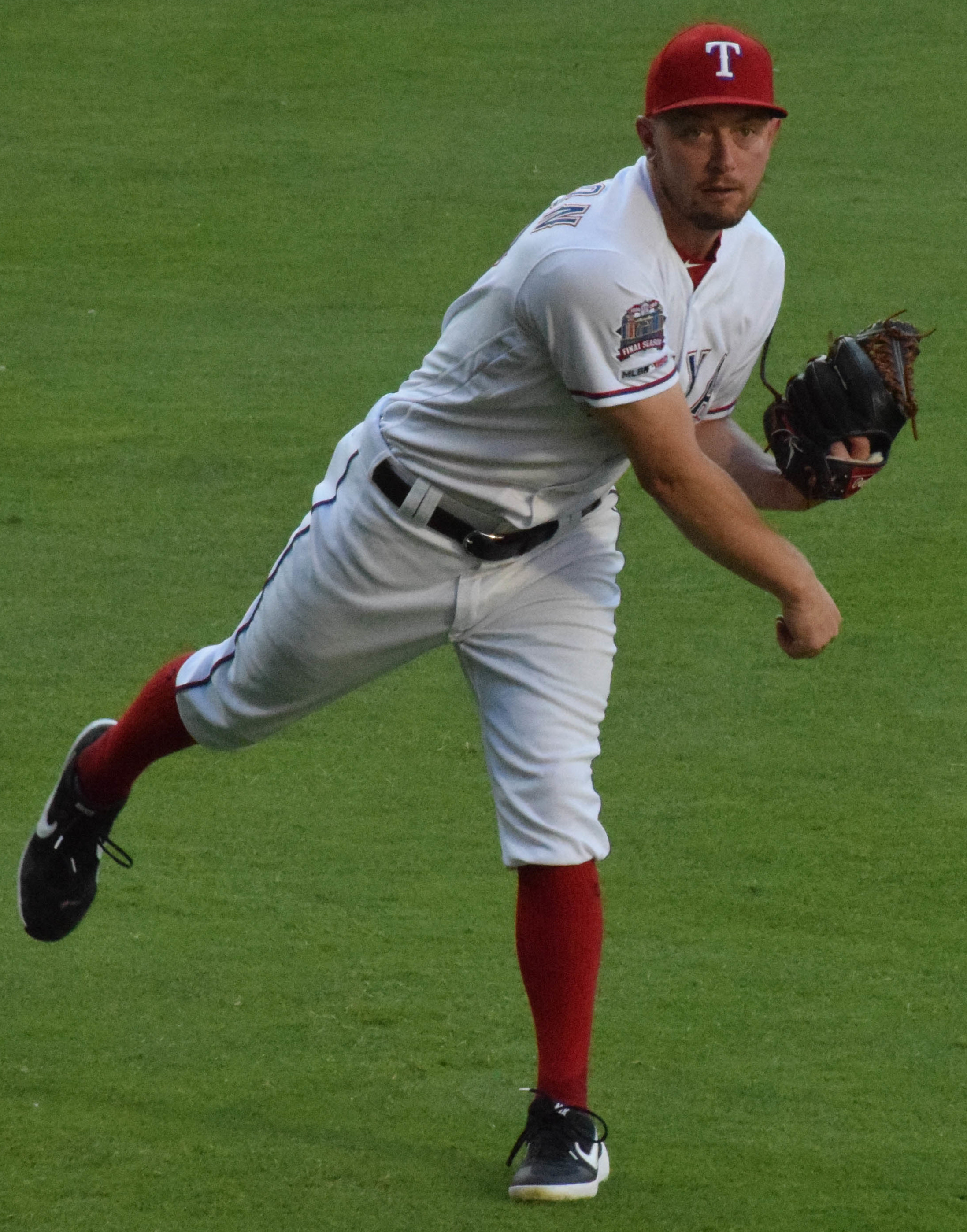 Adrian Sampson with the Texas Rangers at Globe Life Park in Arlington in 2019